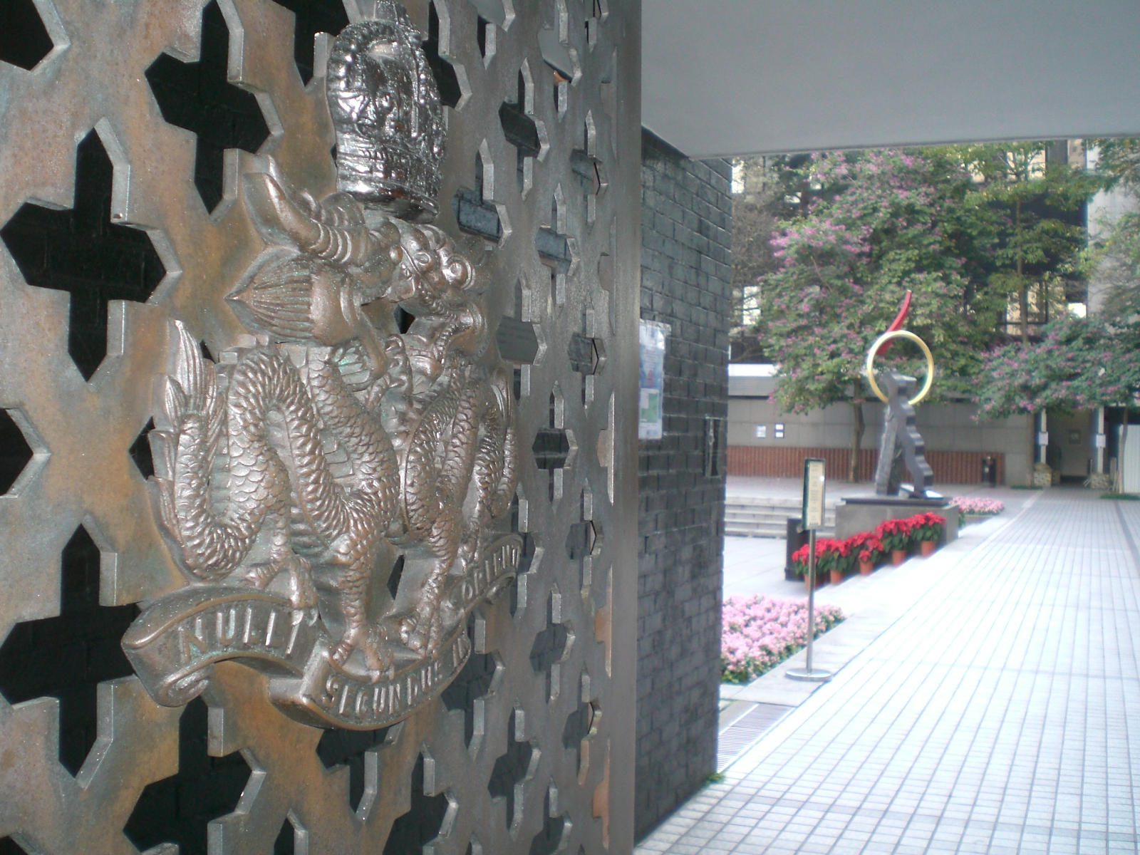 Dragons - 愛丁堡廣場香港大會堂紀念花園City Hall, Hong Kong, Edinburgh Place